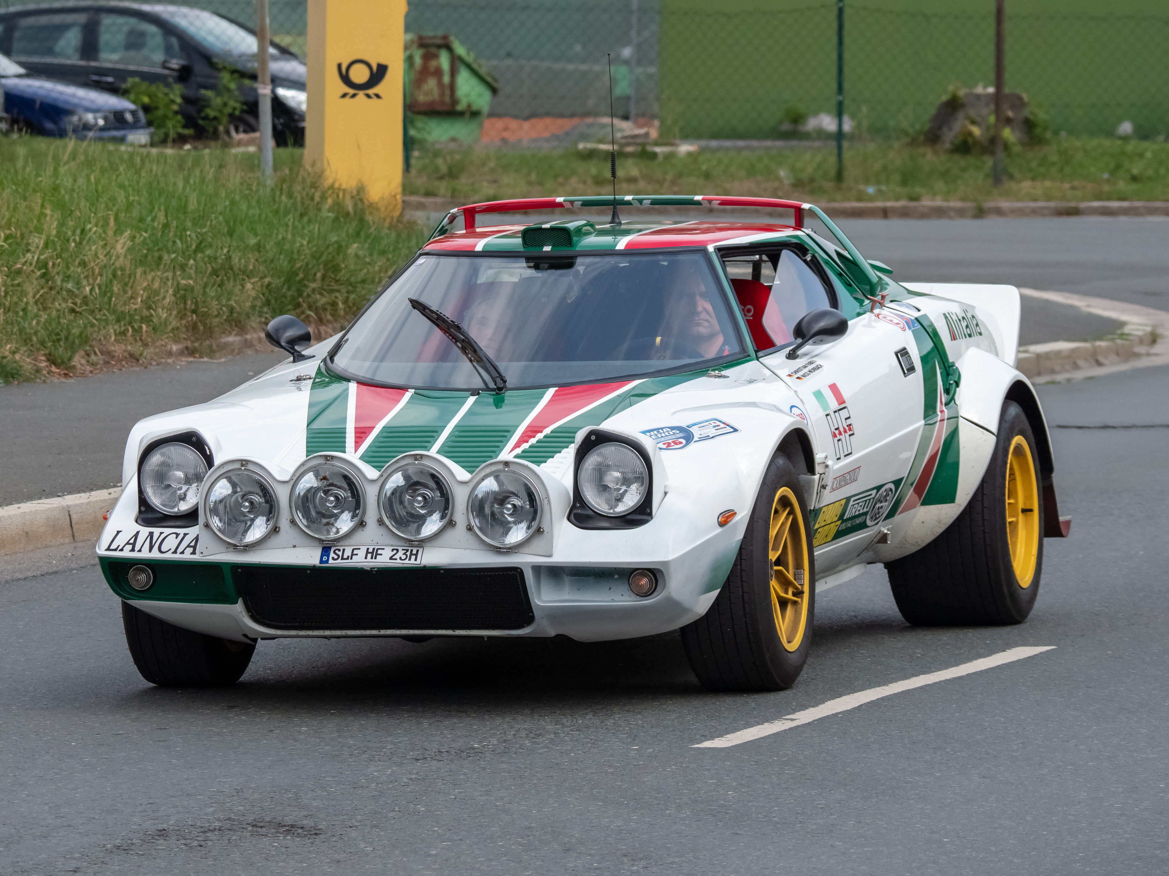 Lancia Stratos HF at the Kulmbach 2018 classic car meeting